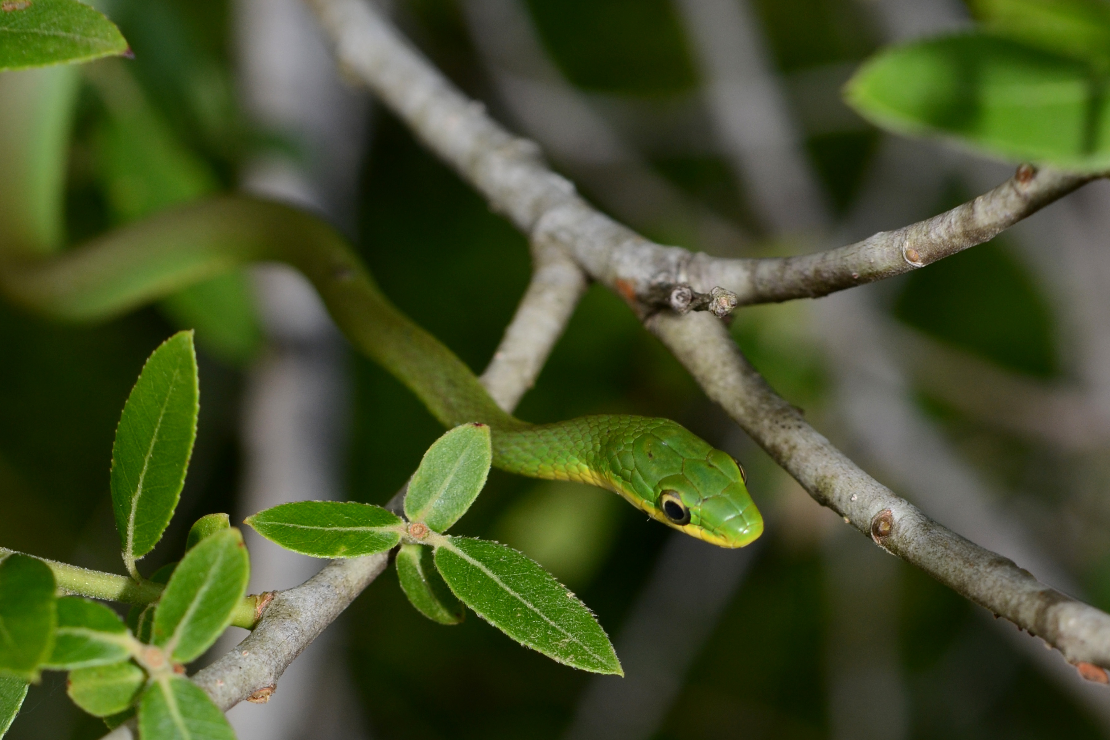 Colubridae: Opheodrys aestivus aestivus North-central Florida